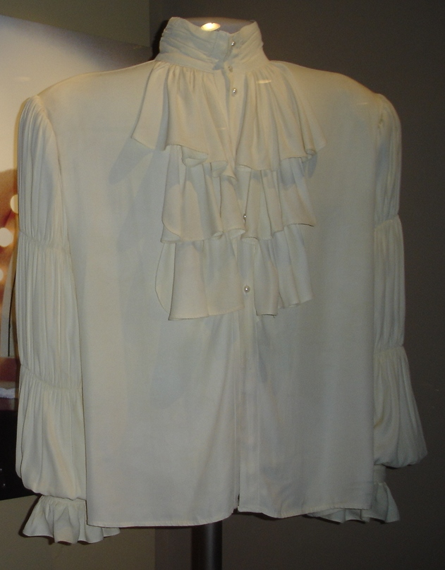 The Puffy Shirt from the homonymous episode of Seinfeld displayed at the National Museum of American History (Smithsonian Institution).